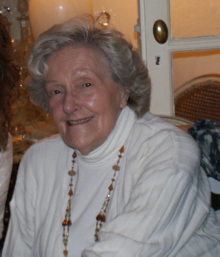 This photo was taken on 31 October 2009 at Saint-Mandé in France by Claudia Linda Compagnoni at the home of Juliette Benzoni.